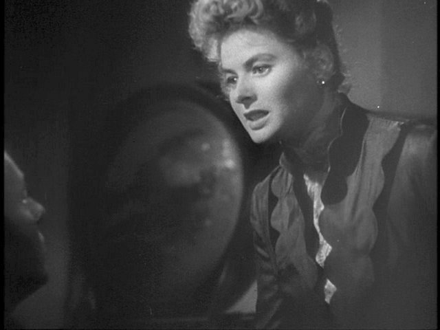 This screenshot shows Ingrid Bergman and Charles Boyer in the end scene, where she confronts him.